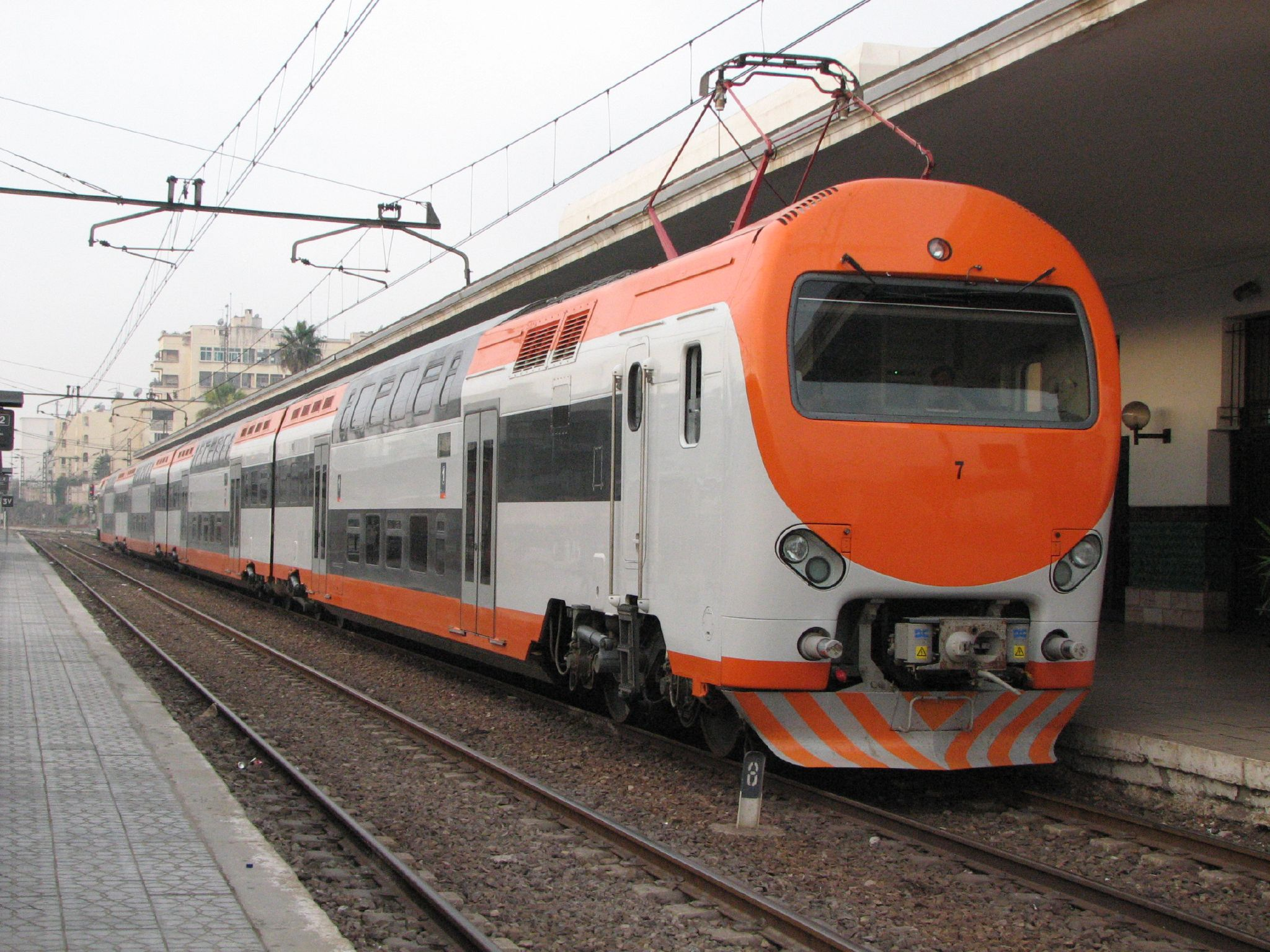 Double Decker Array Heading Fes, waitin to depart at Casblanca Station (Morocco)